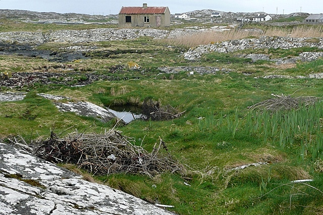 Leitir Mealláin (Lettermullan) An animal shed and new houses are dotted about the southerly part of the island.